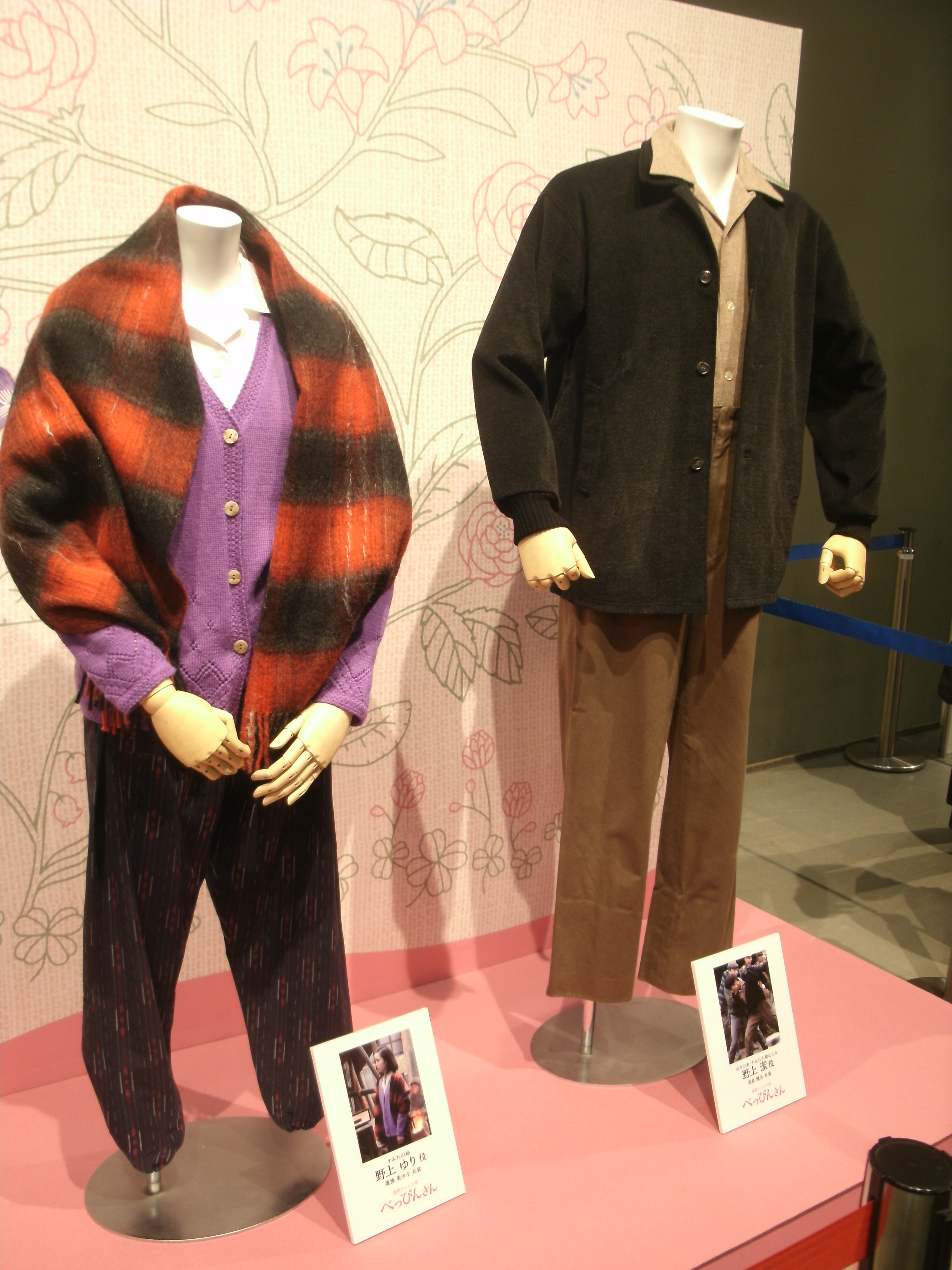 Yuri Bandou(Nogami)&Kiyoshi Bandou's costume